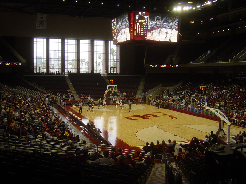 Inside of USC's Galen Center during a pre-season game against Cal Poly Pomona. Note the view of Downtown Los Angeles through the architecturally distinguishing window. Photo taken by Bobak Ha'Eri, on November 11, 2006. Please observe license and properly cite in use outside Wikipedia.